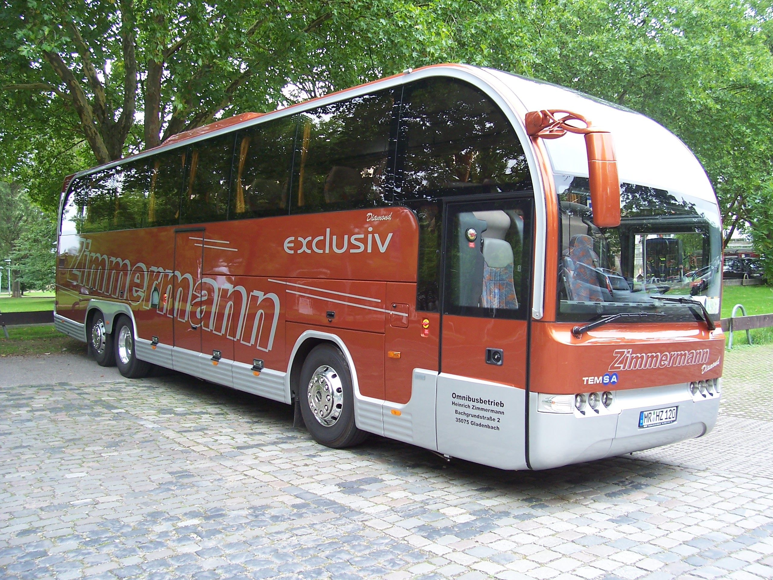 Temsa Diamond coach (reg. MR-HZ 120) in Mannheim, Germany. Omnibusbetrieb Heinrich Zimmermann from Gladenbach operator.